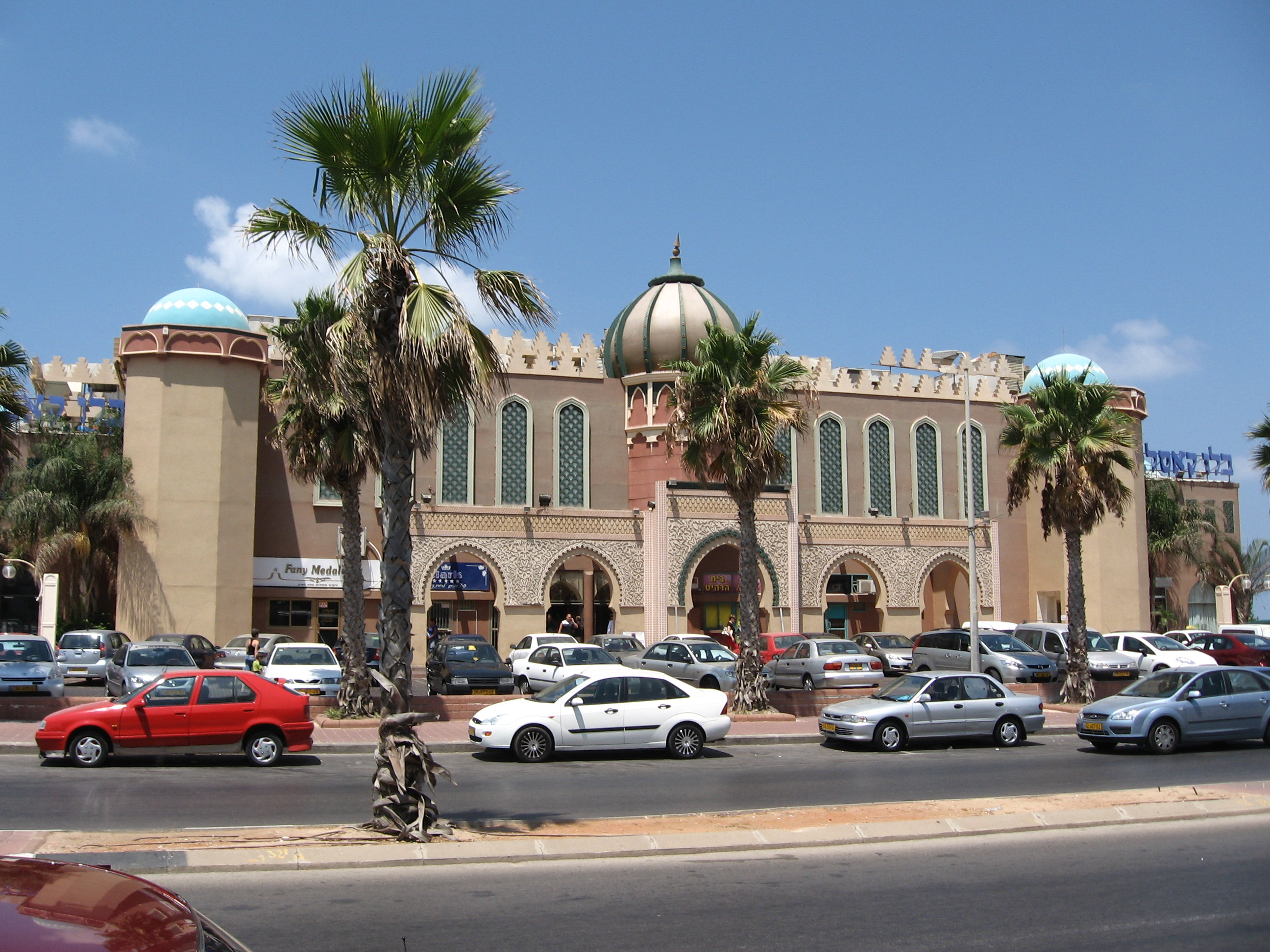 LaMimunia Moroccan culture center.